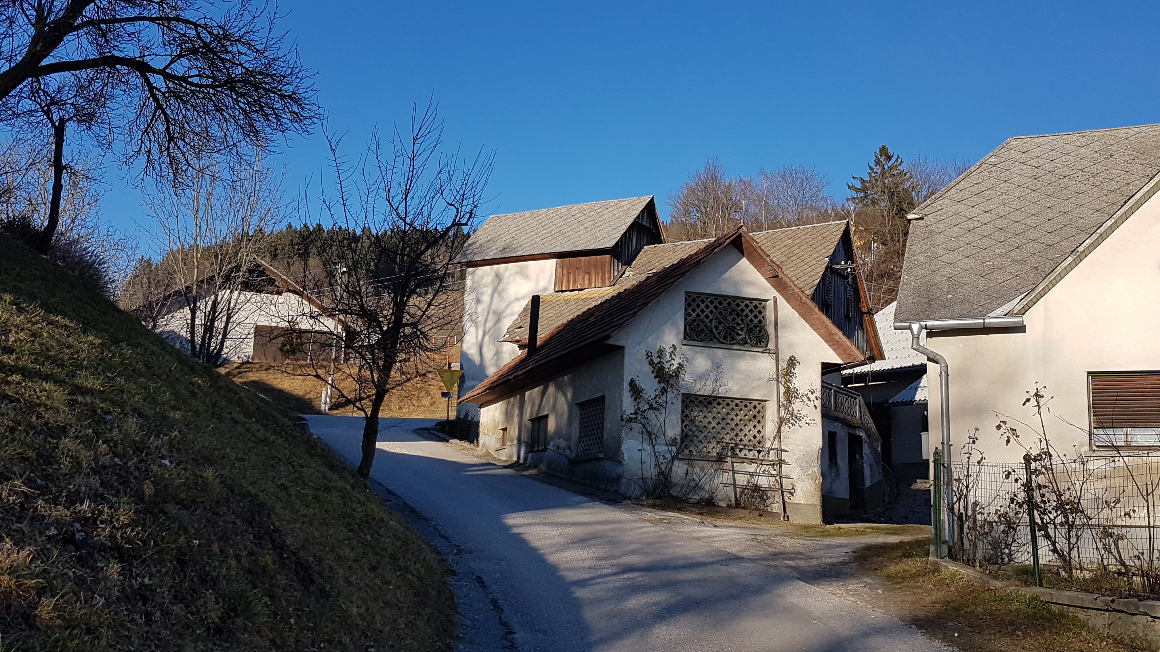 Building in village of Brezje in central Slovenia